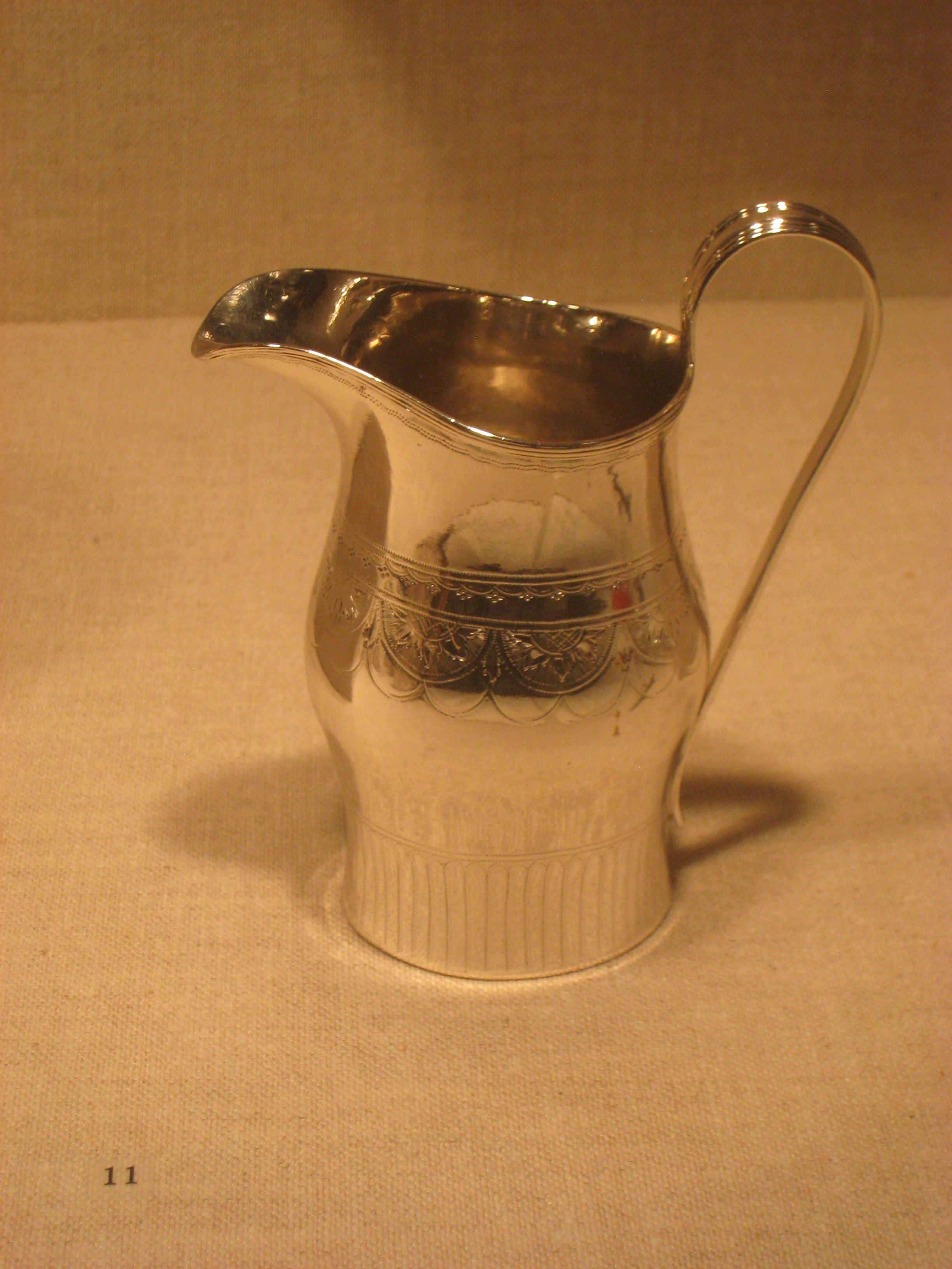 Creampot, circa 1800, Paul Revere silver collection, Worcester Art Museum, Worcester, Massachusetts, USA. The museum permits photography and does not restrict usage of the photographs. Made by American silversmith Paul Revere (1735-1818).